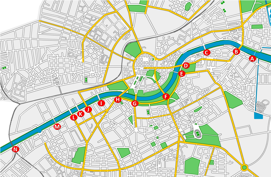 Map of bridges in Timisoara